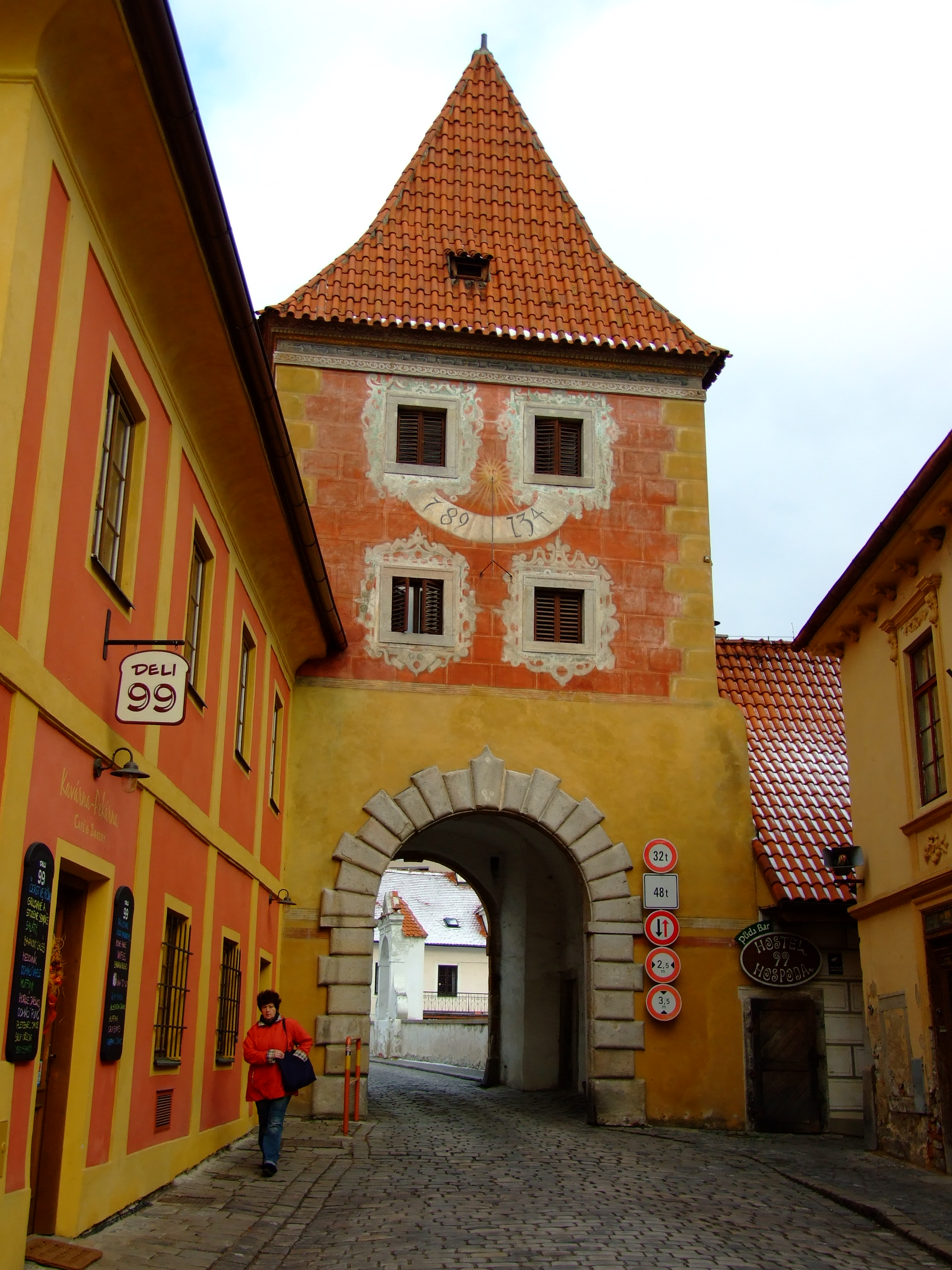 Budějovice Gate in Český Krumlov covered by snow, South Bohemian region, CZhelp